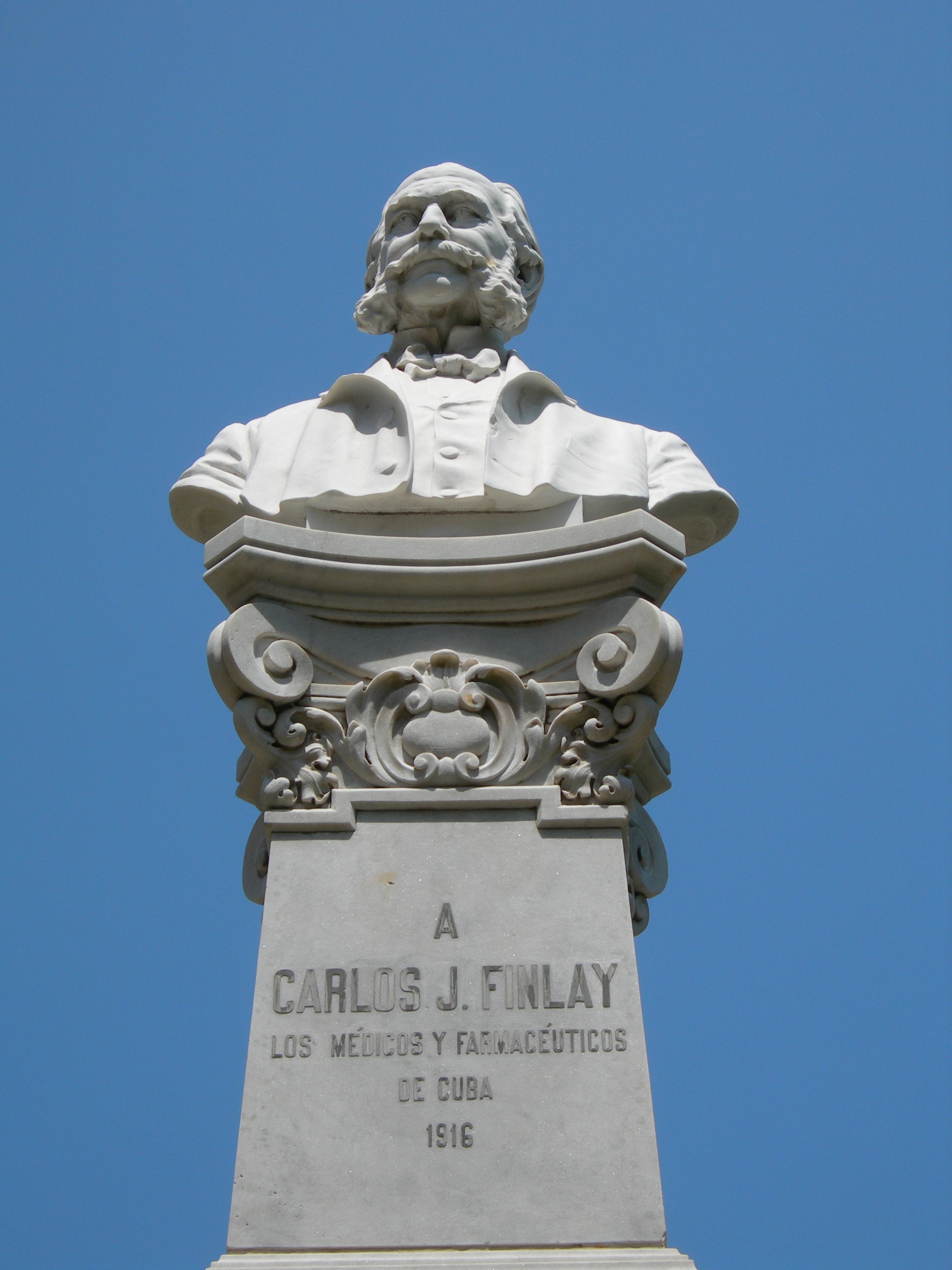 Statue of Carlos Finlay infront of the Carlos J. Finlay Historic Museum in Havanna, Cuba